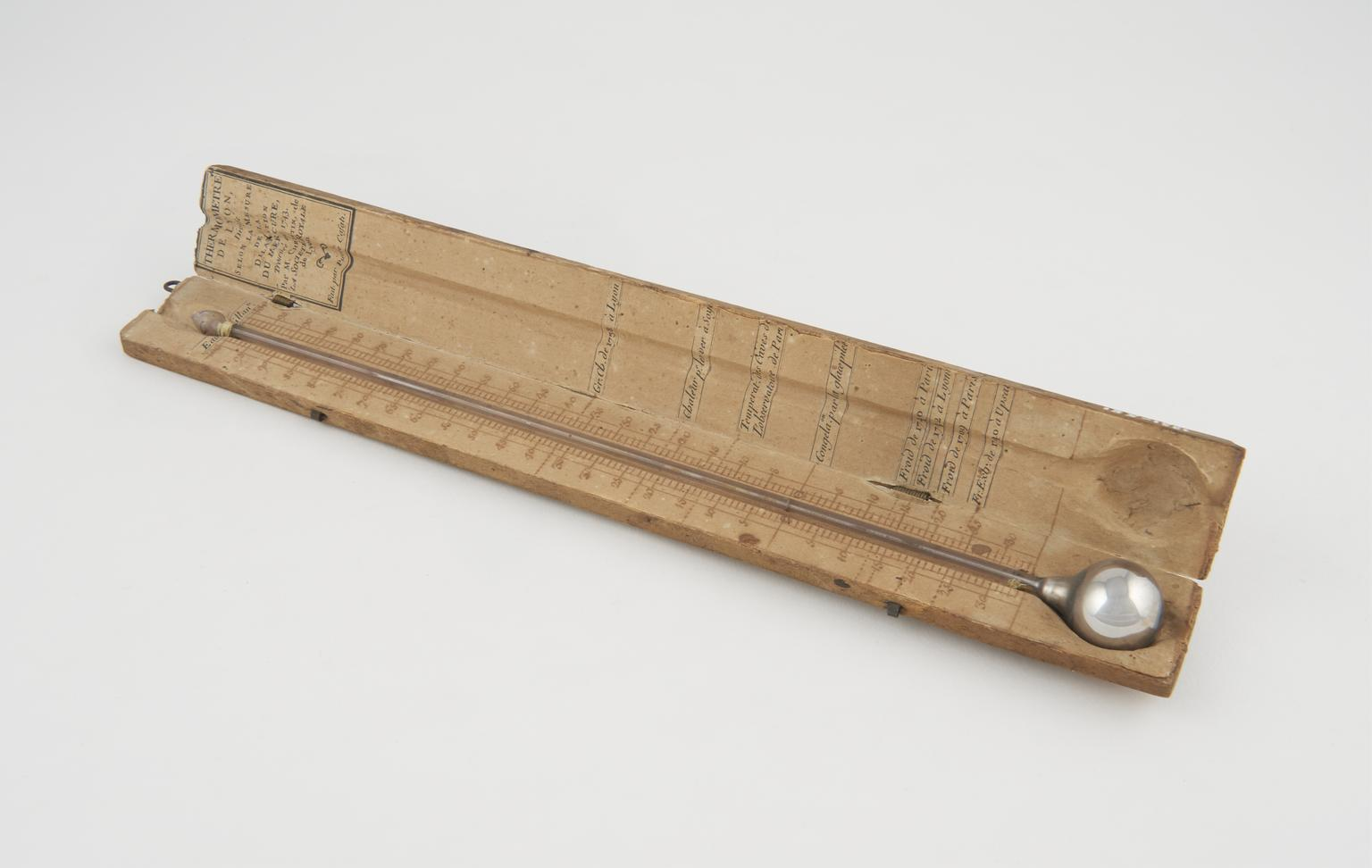 Mercury-in-glass thermometer, made by Pierre Casati, in folding wooden case 12 1/2 x 1 3/ 8" x 5/8" (paper scale graduated from -35 deg to +100 deg according to the scale introduced by Christin in 1743).